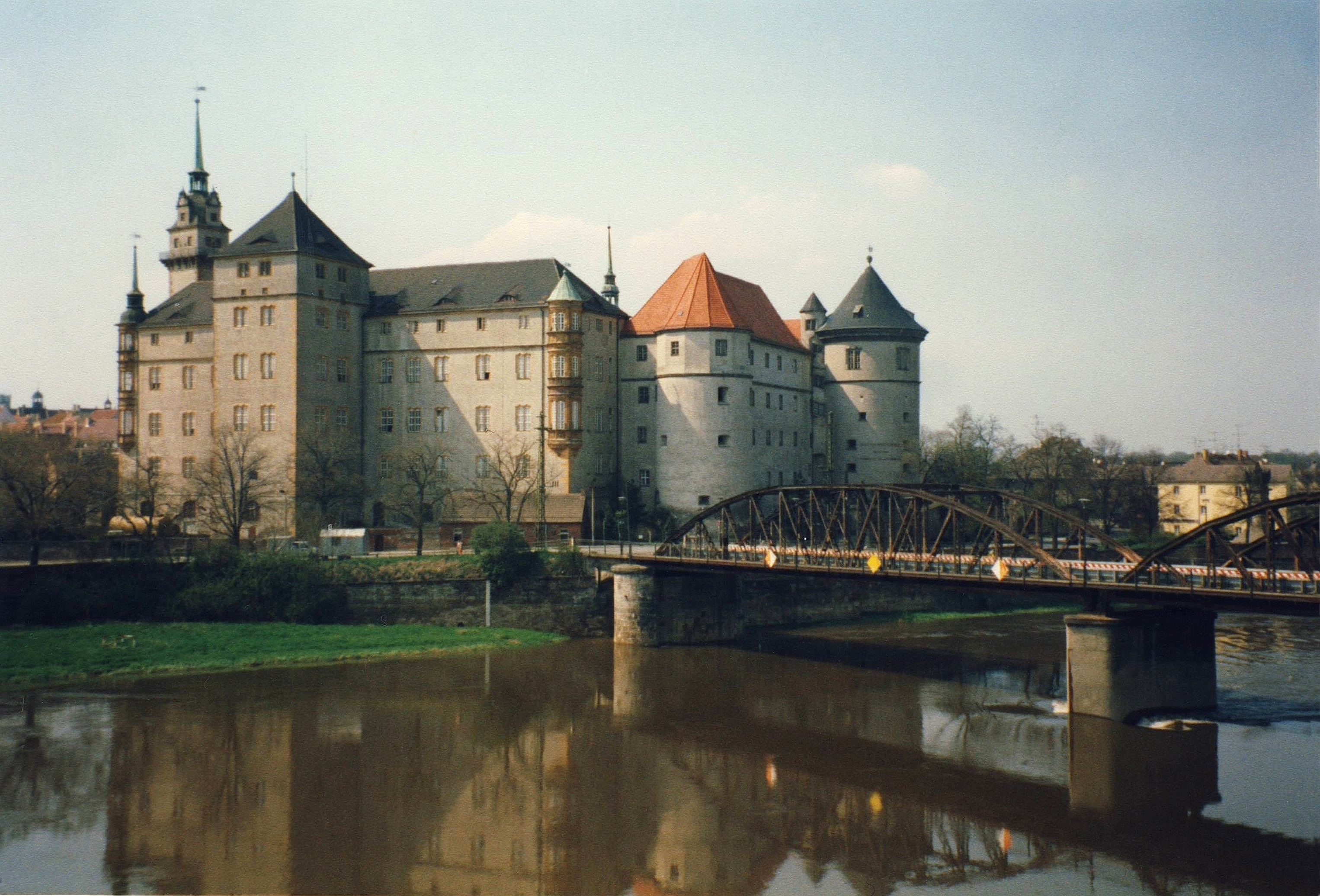 Torgau: Castle Hartenfels at River Elbe with historical bridge